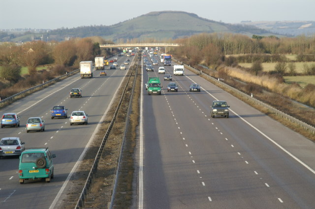 M5 Heading North, Brent Knoll in the background.